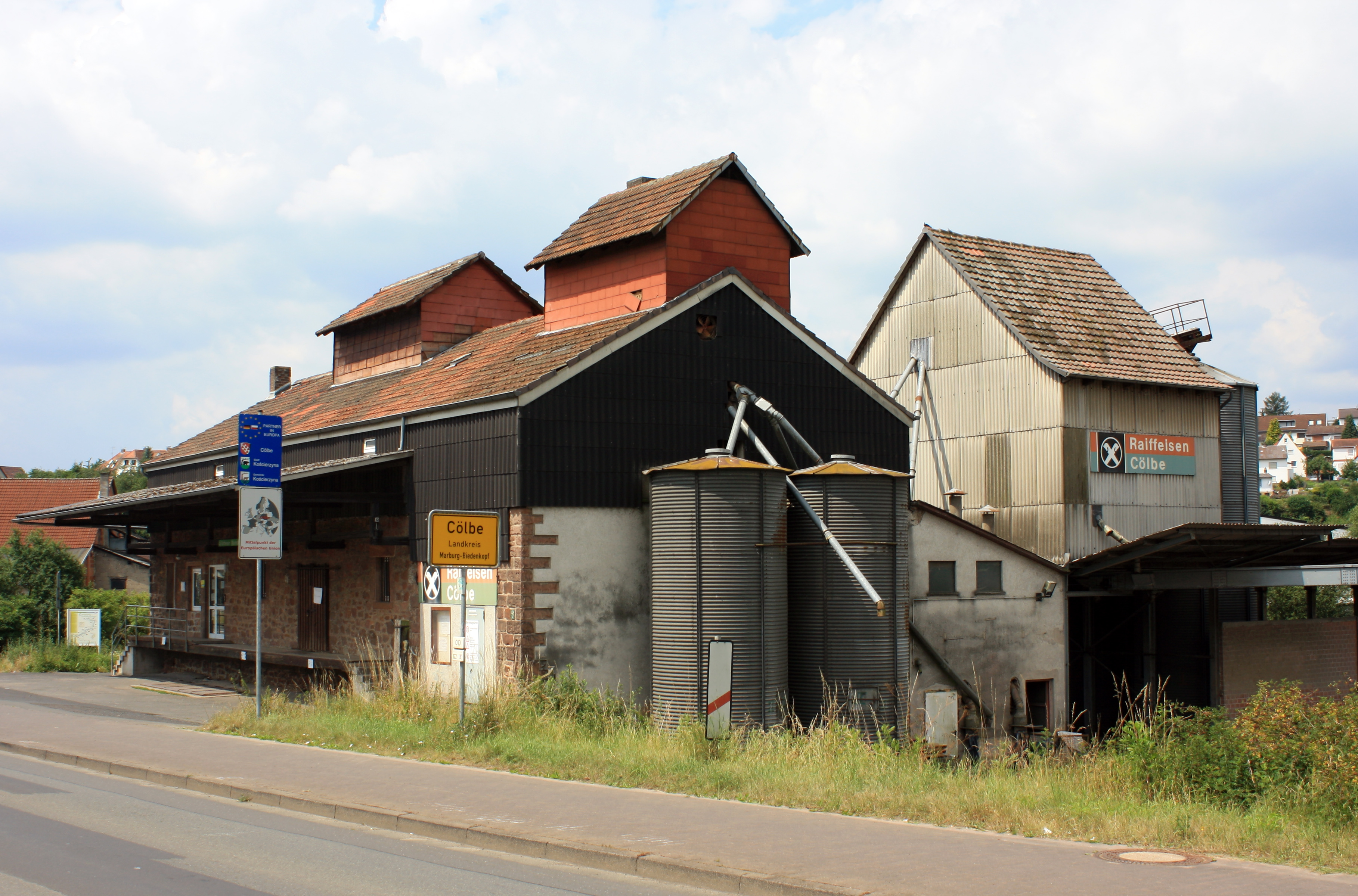 The mill(?) in Cölbe